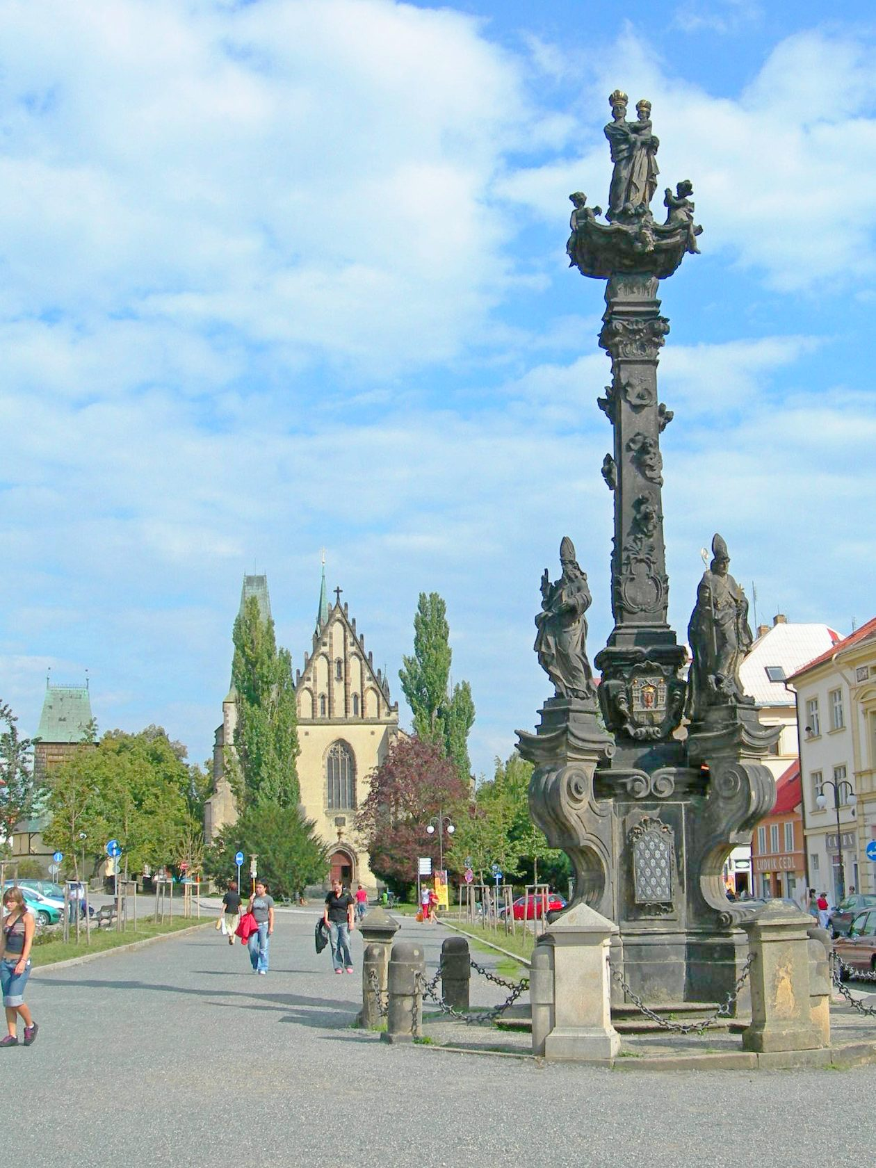 Marian column in Rakovník, Main square towards W